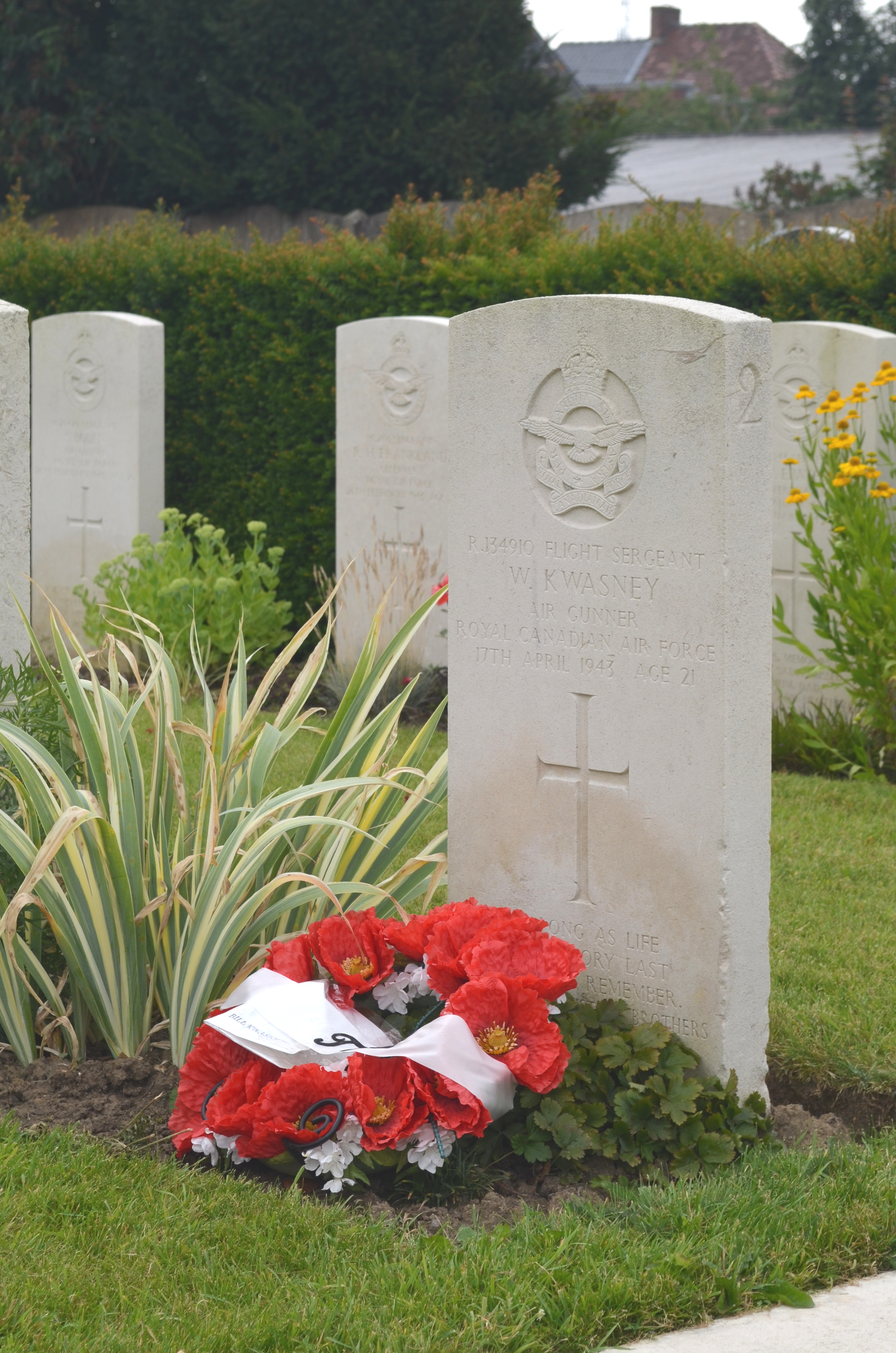 Florennes communal cimetery, Row 2. Grave 28 R.134910 Flight sergeant W. Kwasney air gunner Royal Canadian Air Force 17th April 1943 age 21